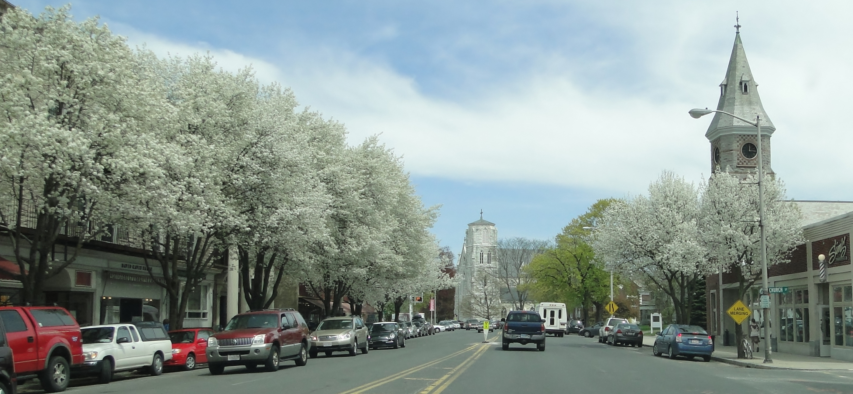 Main Street Great Barrington, Massachusetts in the Spring of 2011